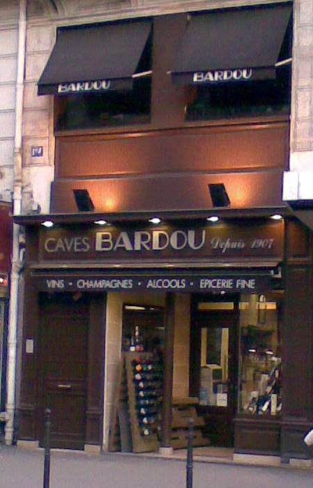 Wine Cellar Bardou in Paris, since 1907